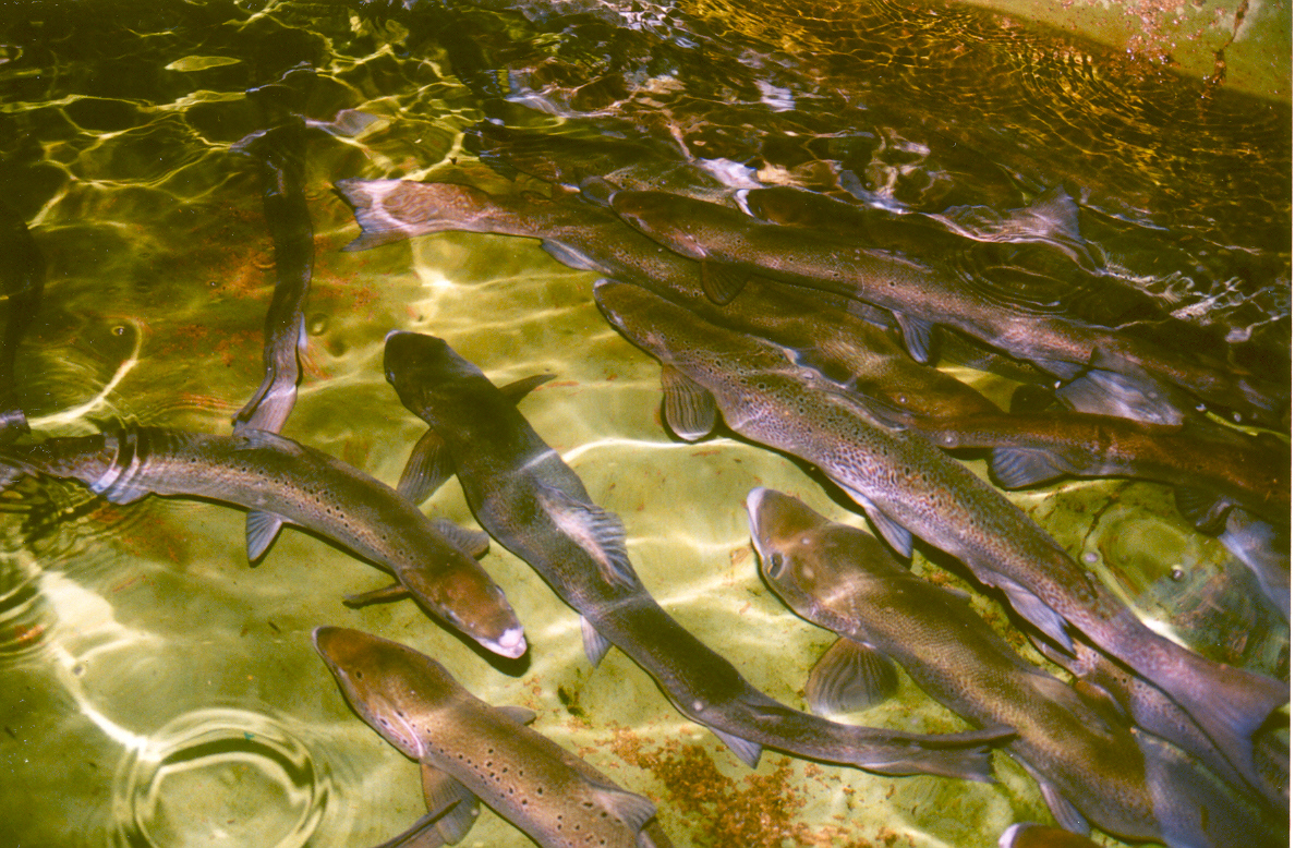 Adult Atlantic salmon of the Penobscot River in Maine are seen in their holding pool before artificial spawning in November. Unlike Pacific salmon, Atlantic salmon don't usually die after spawning, and are therefore returned to their home river to migrate back to sea. They have the ability to return to their home river to spawn again if they can avoid predation. Credit: E. Peter Steenstra/USFWS